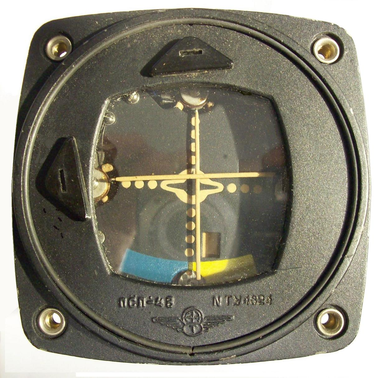 ILS indicator (aircraft cockpit instrument), consisting of four moving coil systems, two of them driving the needles and two for driving the markers. Soviet Union, ca. 1964.